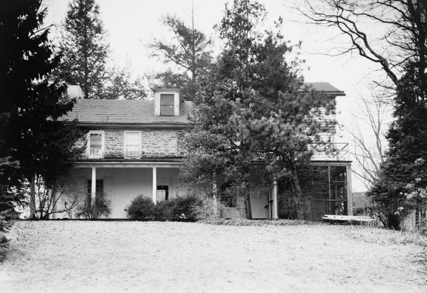 Birthplace of Benjamin Rush, signer of the American Declaration of Independence